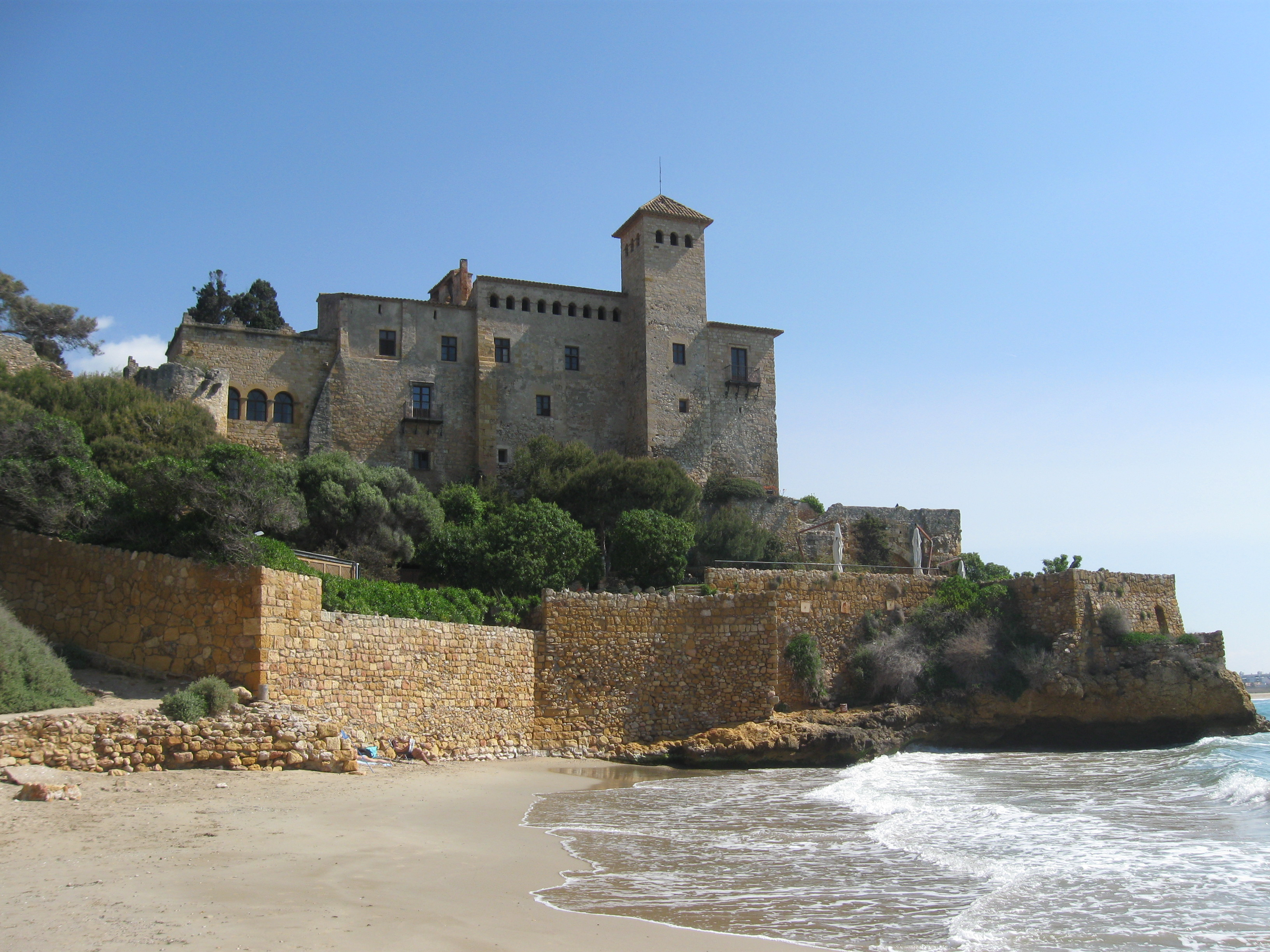 Castle of Tamarit in Tarragona, Catalonia)